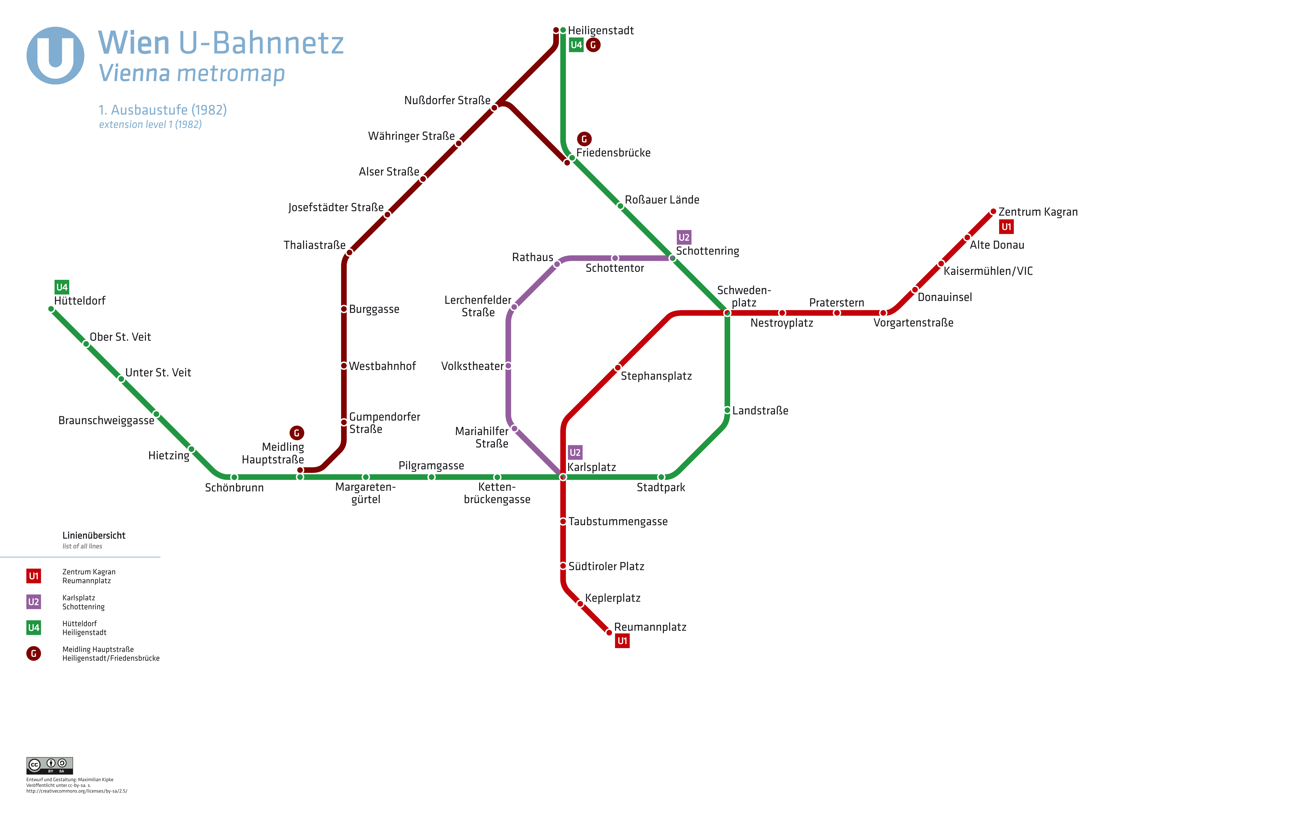 Metromap of Vienna 1982